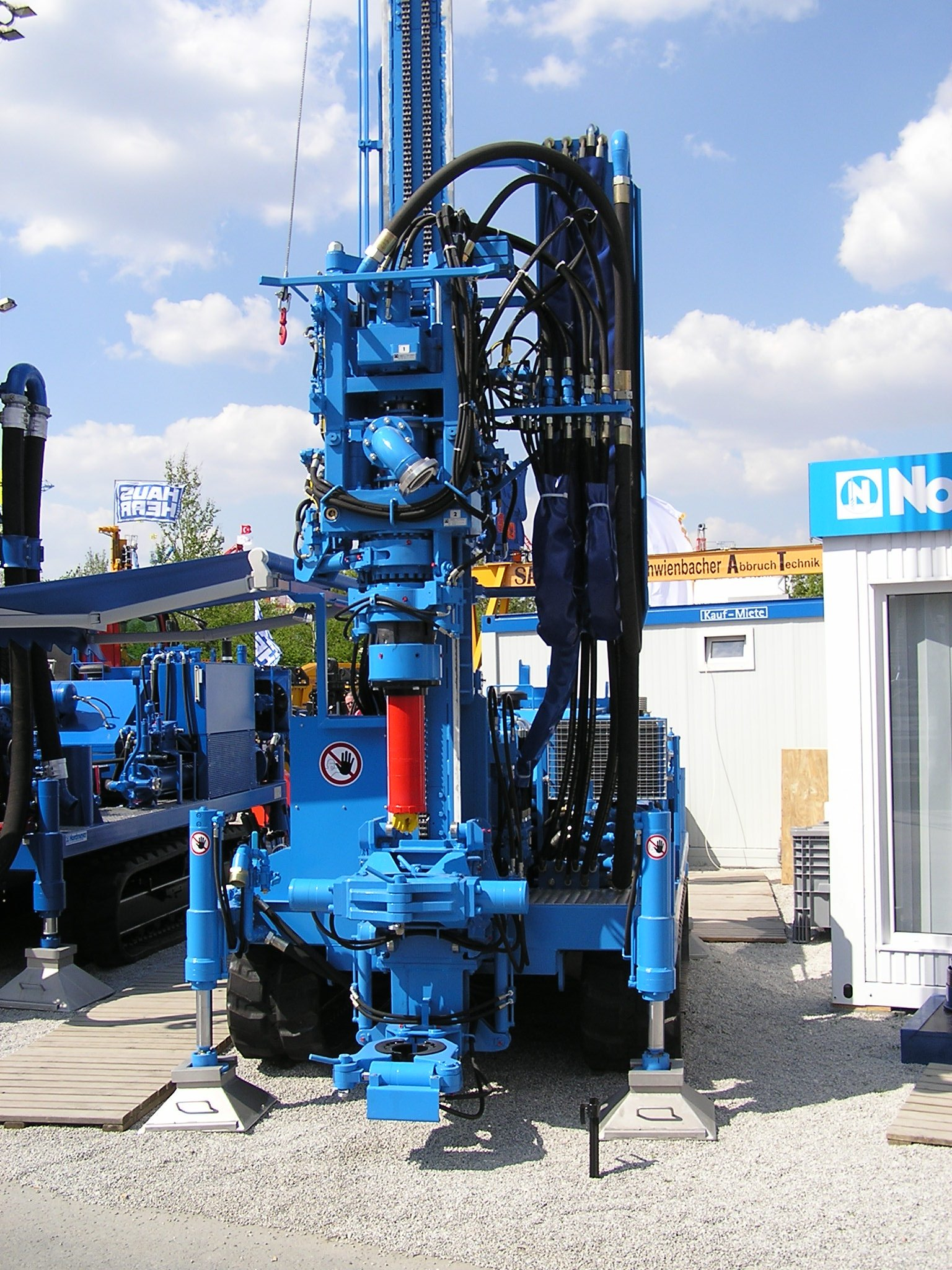 Drilling machine. Photographed on the BAUMA exhibition in Munich 2007.